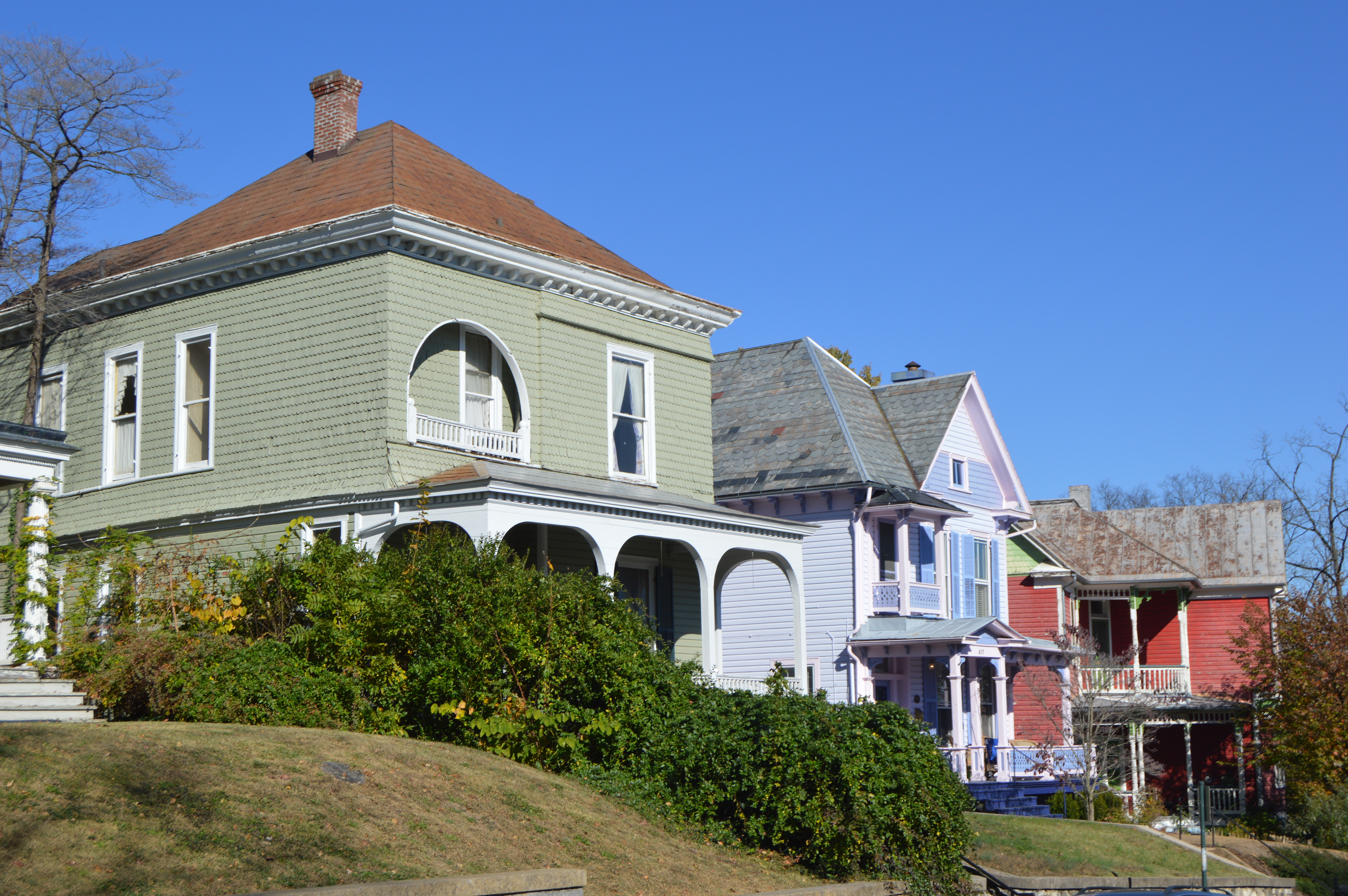 Houses on Berkeley Place, just west of the Berkeley Avenue intersection, in Staunton, Virginia, United States. This block is part of the Gospel Hill Historic District, a historic district that is listed on the National Register of Historic Places.